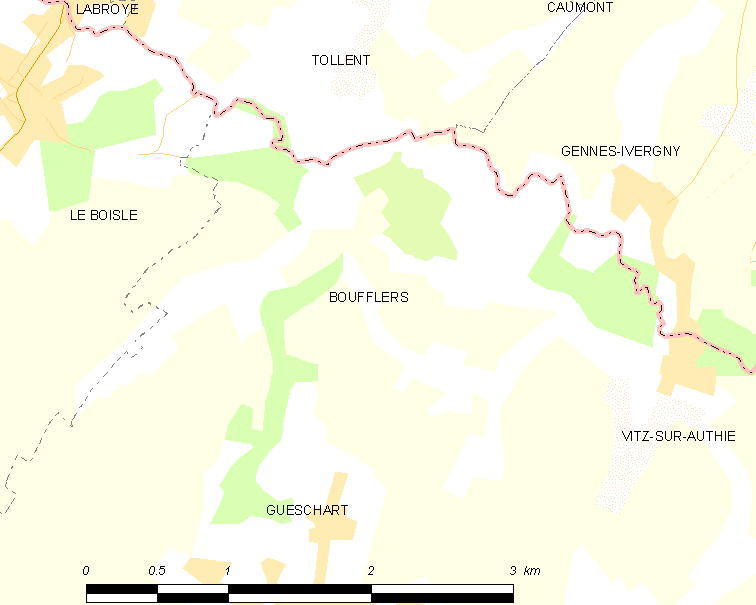 Map of French municipality Boufflers